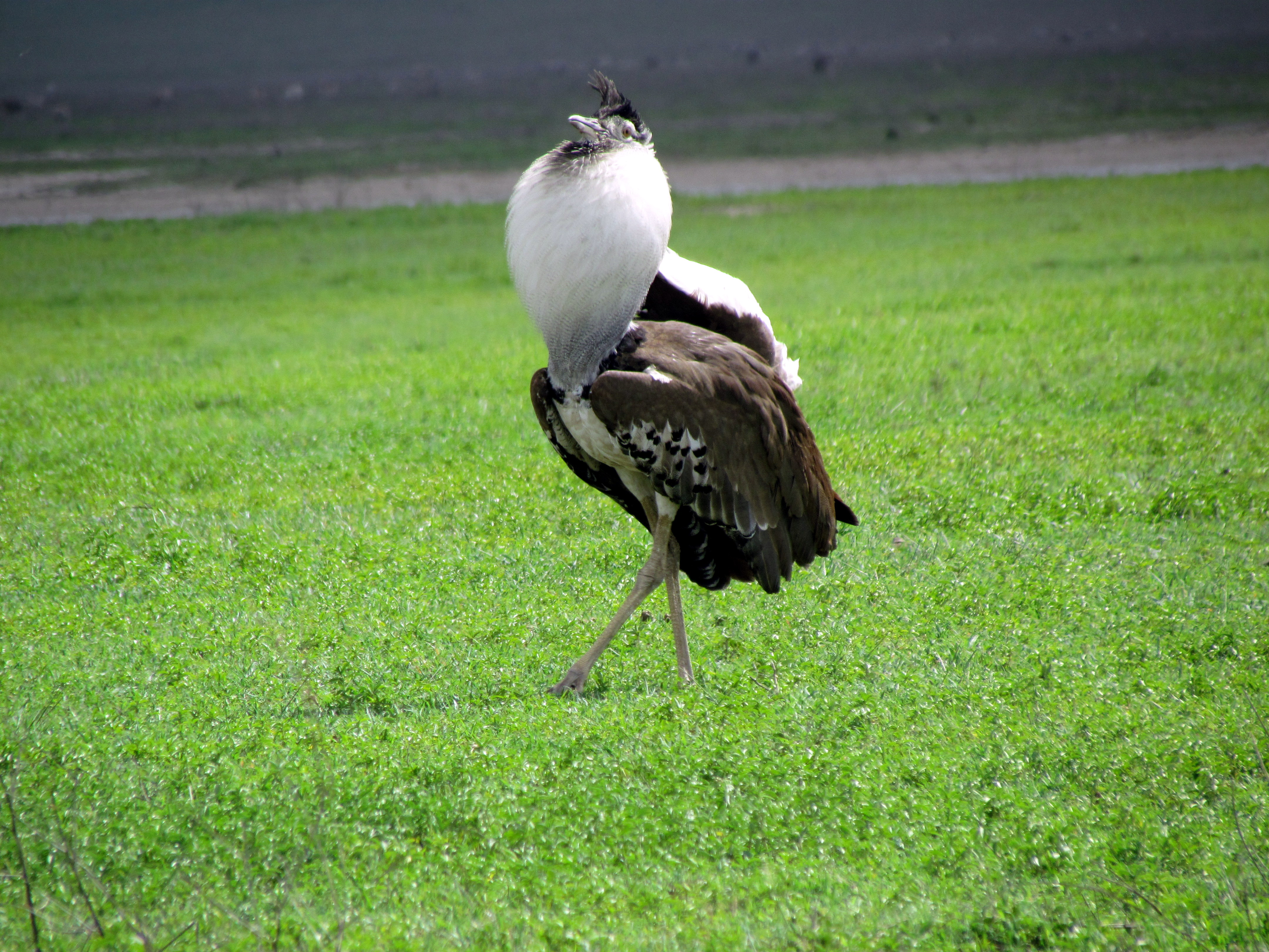 Male kori bustard displaying in Ngorongoro Conservation Area, Tanzania, Africa